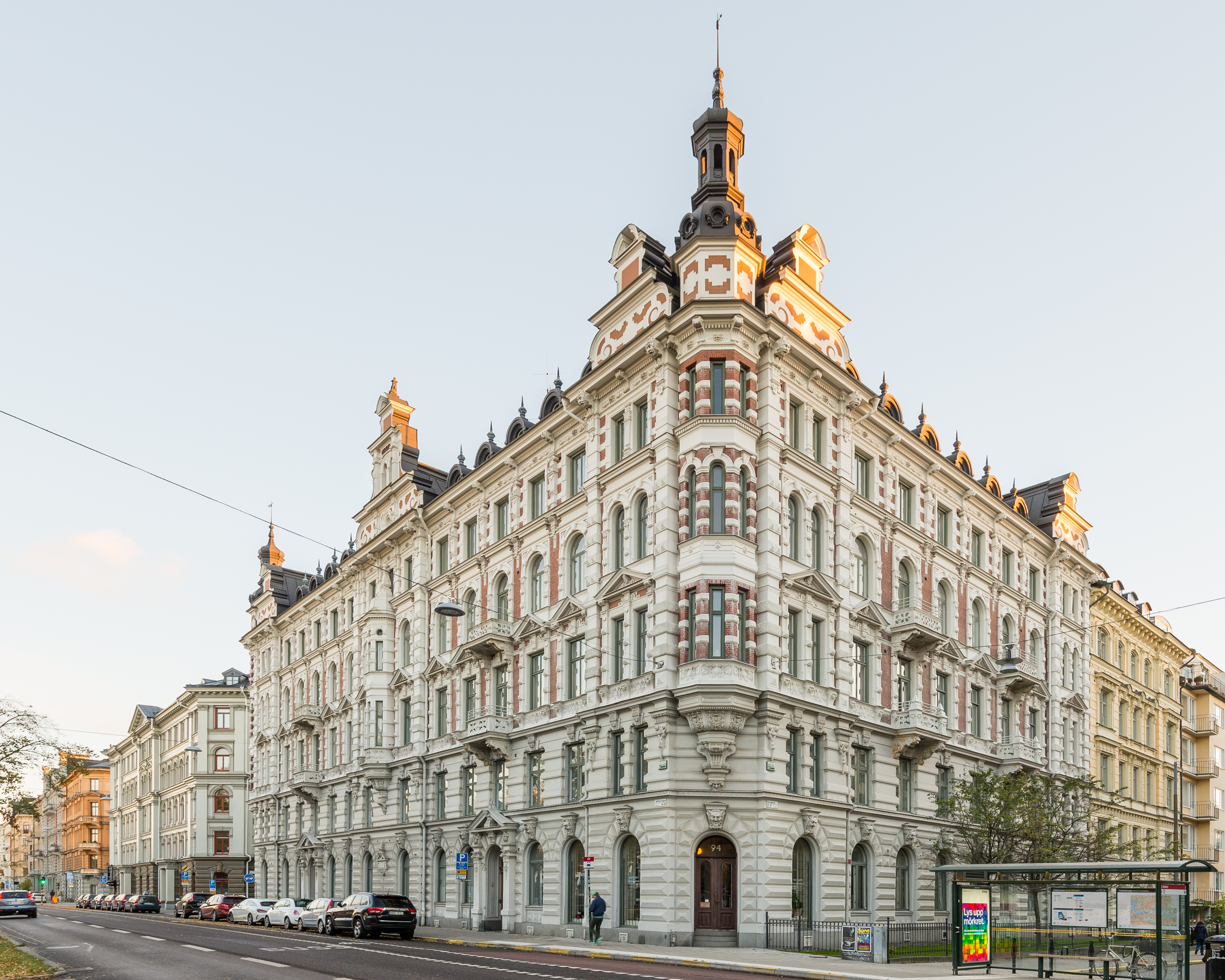 Valhallavägen number 94-96. Built 1895-86. Architect Fredrik Dahlberg.